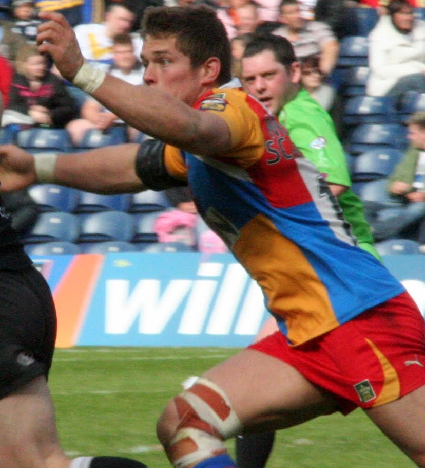 Louie McCarthy-Scarsbrook Quins